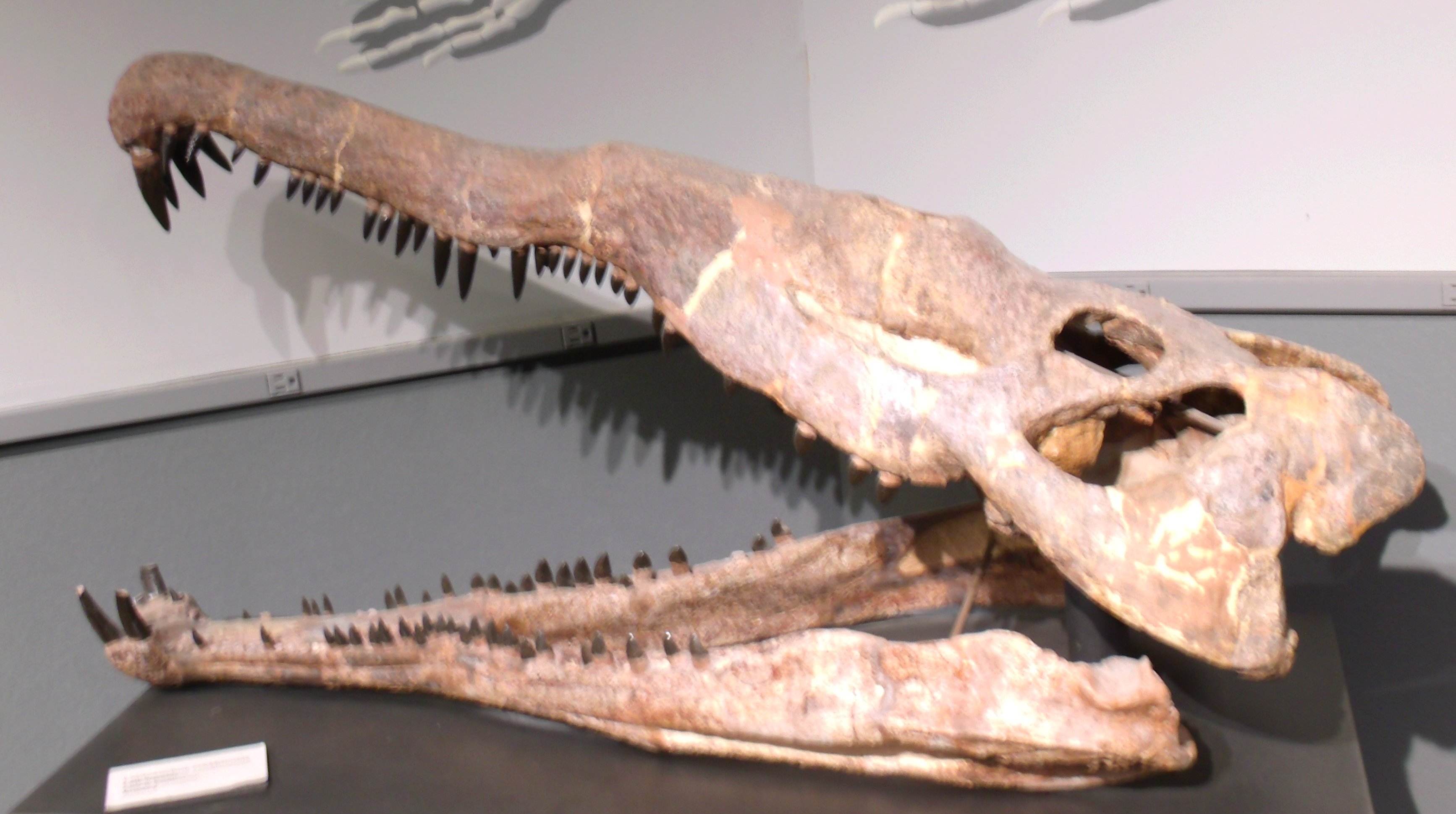 Crop of file in filename